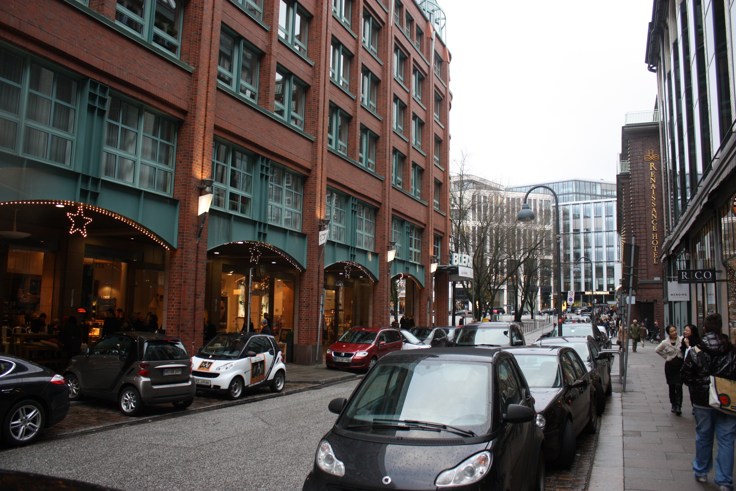 Hamburg, the street "Bleichenbrücke", northwerstern part